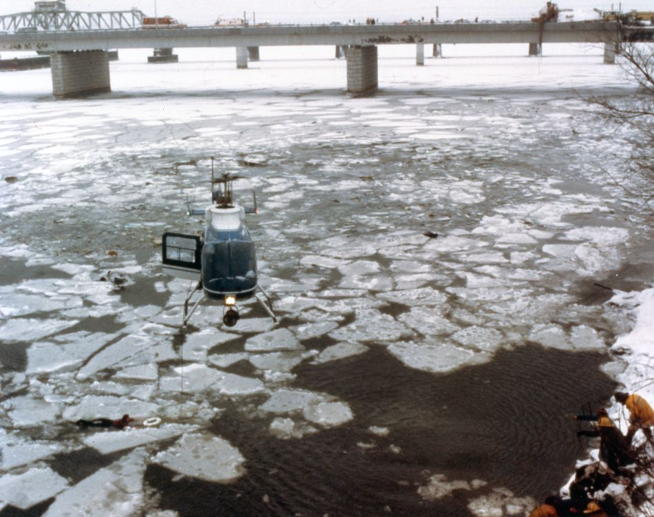 Flight 90 crashed shortly after takeoff of Washington Airport.,and killing 78 people.